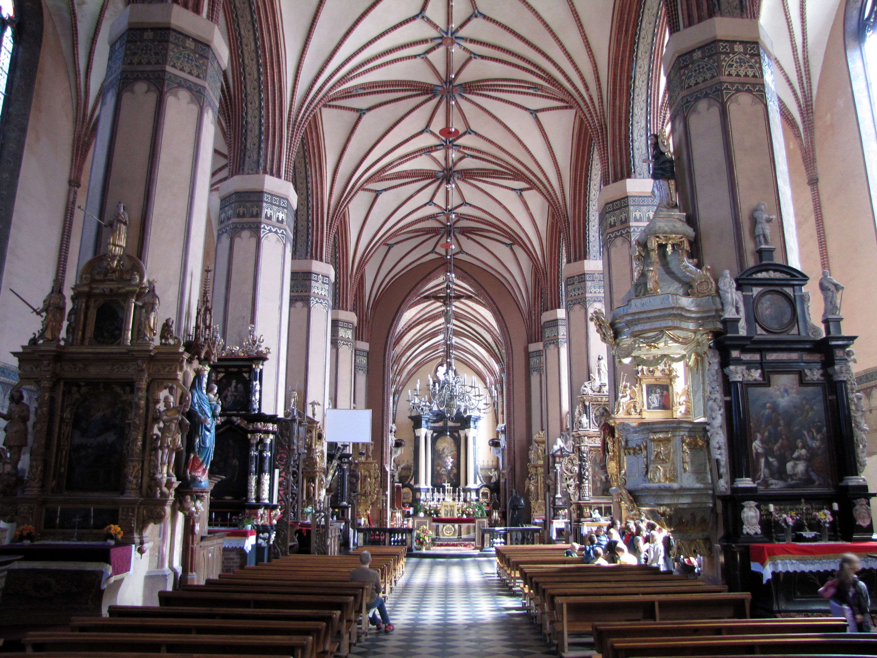 Interior of the Frombork Cathedral in Frombork